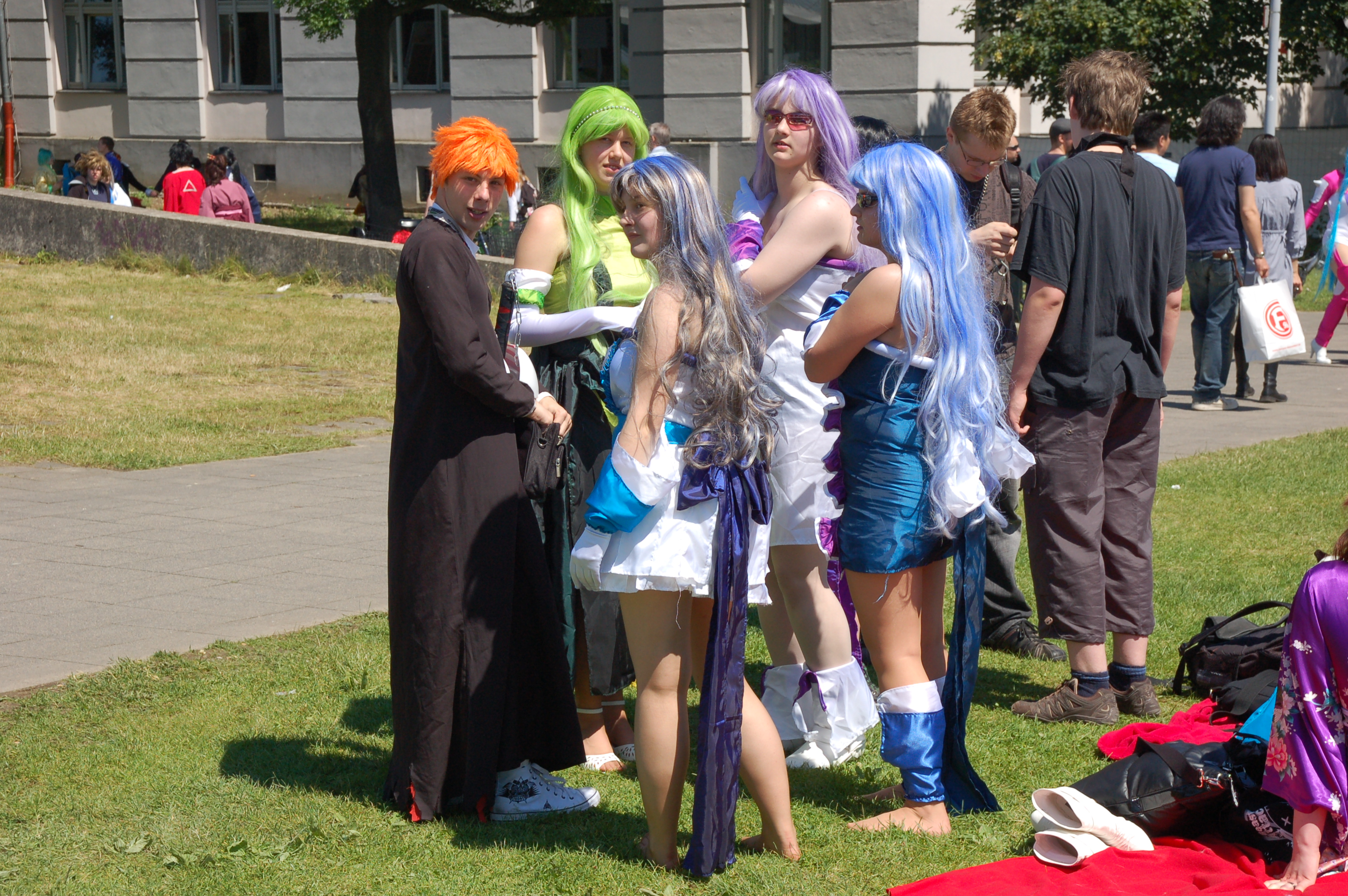 Disguised manga fans at the Japan Day 2009 in Düsseldorf, Germany